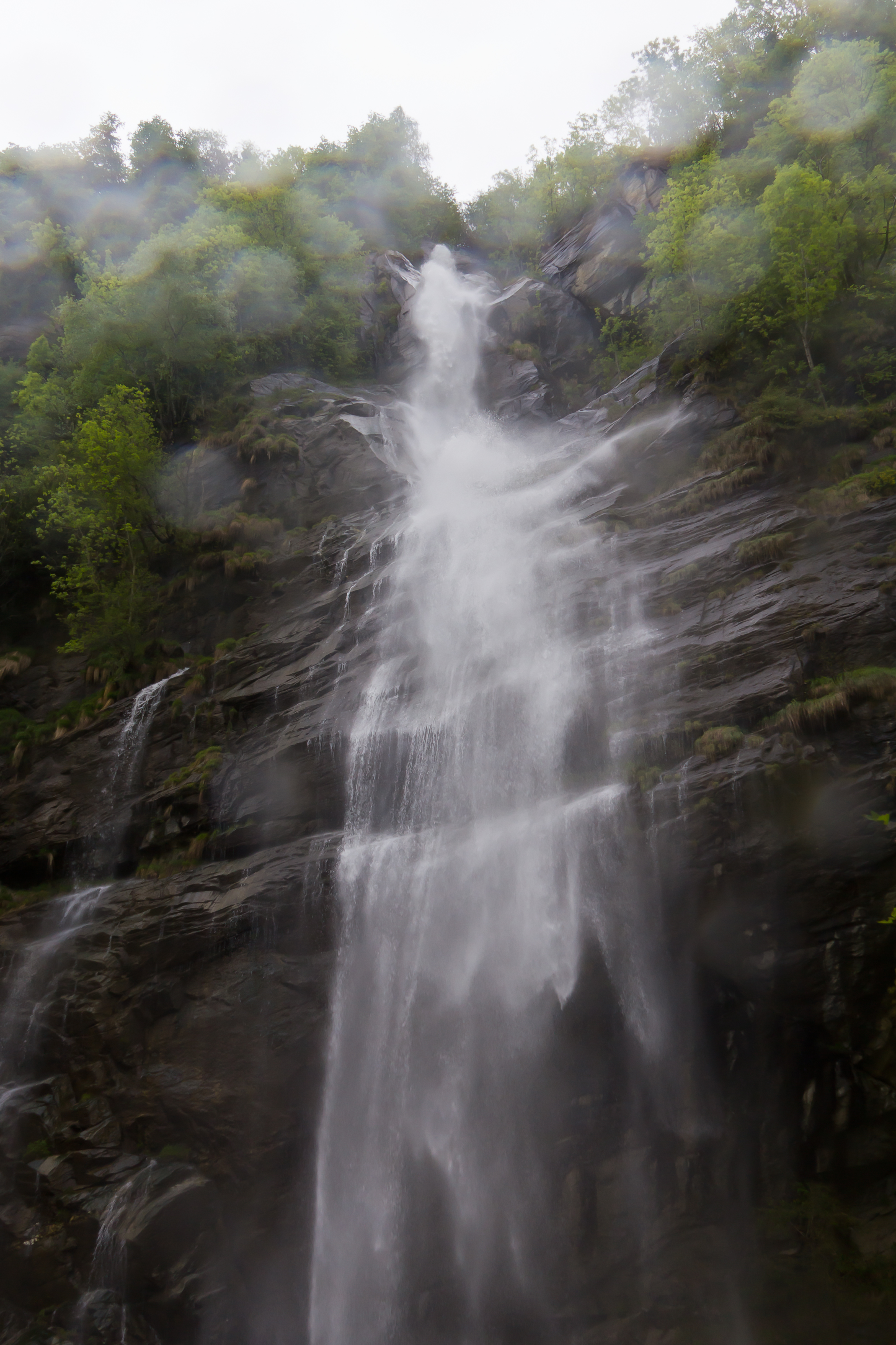 Waterfall nearby Chiggiogna, canton Ticino, Switzerland